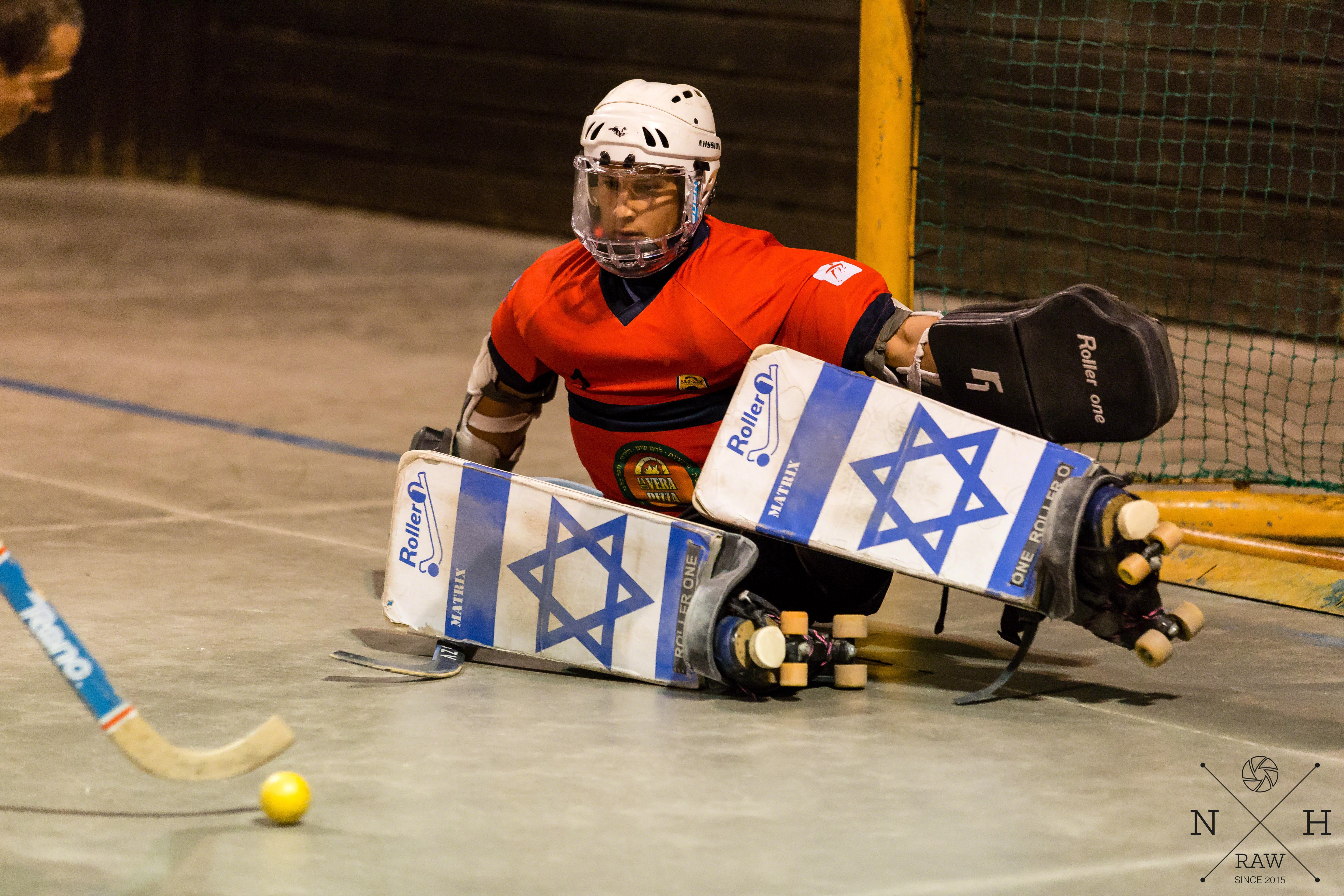 A goalie in the Israeli Final Four 2017 protecting the goal from the ball